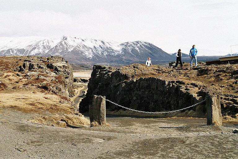 Almannagjá at Thingvellir, Iceland Reykholt 11:56, 23. Mai 2004 (CEST)